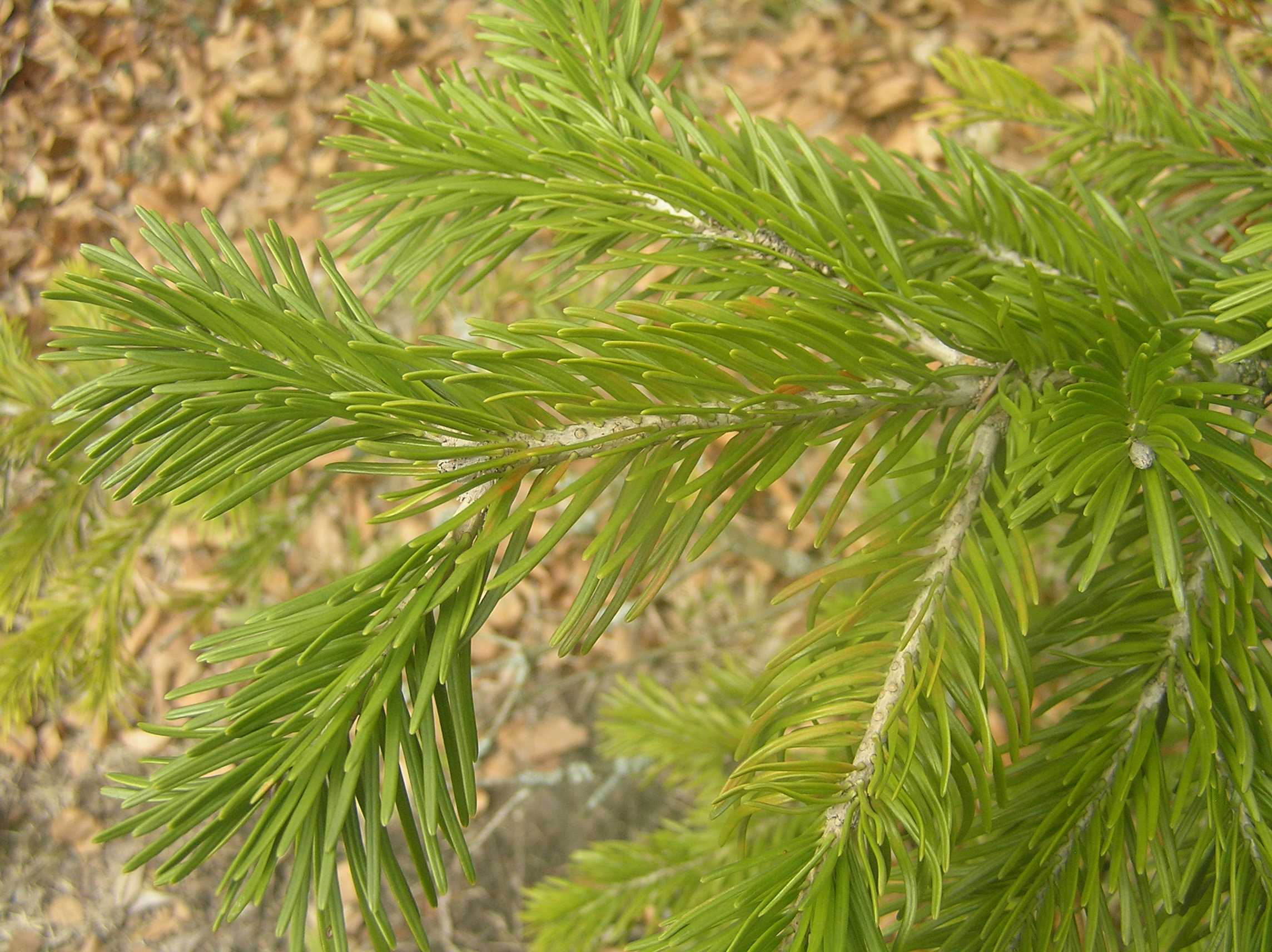 Abies pindrow, cultivated in Brno, Czech Republic